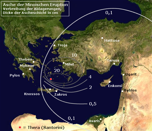 Ash from the Thera eruption.Based on Friedrich, Walter (2000): Fire in the Sea: Natural History and the Legend of Atlantis, Cambridge: Cambridge University Press. ISBN 0-521-65290-1